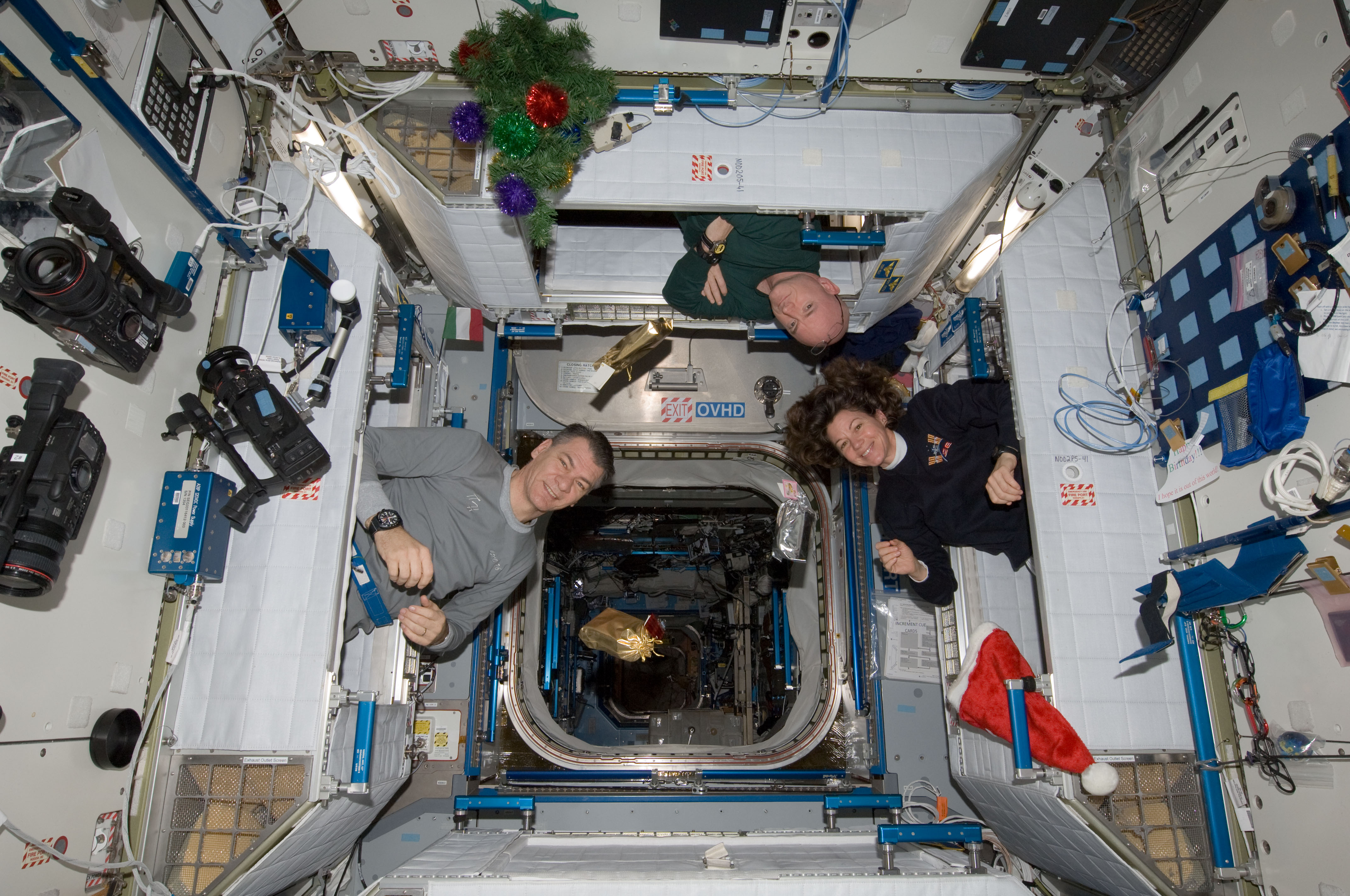 Three of the six crew members aboard the International Space Station peek out of their sleeping quarters on Christmas morning to view the station's decorations and gifts. Shown, from left, are European Space Agency astronaut Paolo Nespoli, Expedition 26 flight engineer, NASA astronaut Scott Kelly, Expedition 26 commander, and NASA astronaut Catherine (Cady) Coleman, flight engineer.